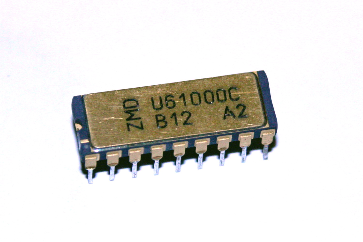 1Mbit DRAM U61000C, ZMD, East Germany, 1990